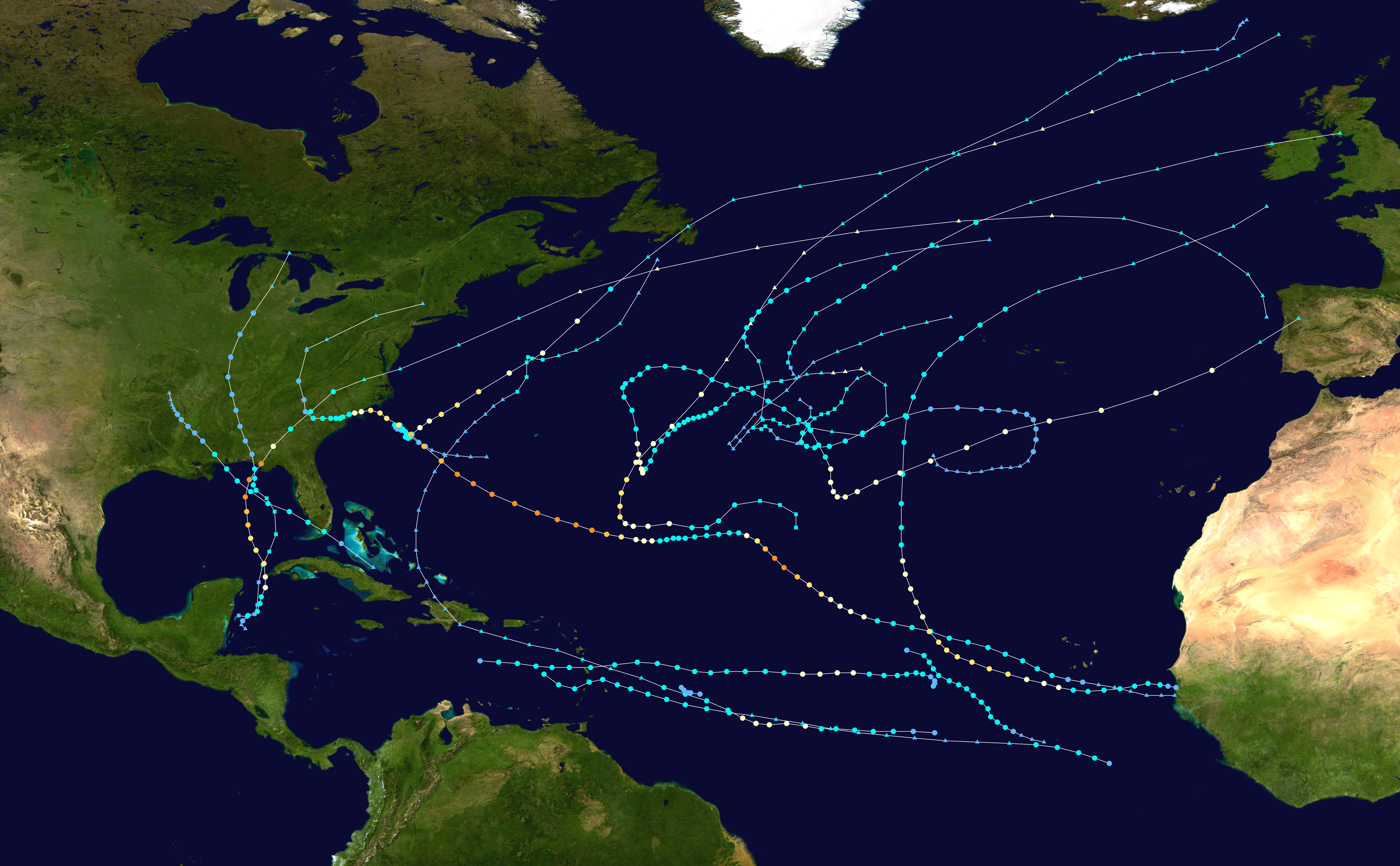 This map shows the tracks of all tropical cyclones in the 2018 Atlantic hurricane season. The points show the location of each storm at 6-hour intervals. The colour represents the storm's maximum sustained wind speeds as classified in the Saffir-Simpson Hurricane Scale (see below), and the shape of the data points represent the type of the storm. Saffir–Simpson scale Tropical depression≤38 mph≤62 km/h Category 3111–129 mph178–208 km/h Tropical storm39–73 mph63–118 km/h Category 4130–156 mph209–251 km/h Category 174–95 mph119–153 km/h Category 5≥157 mph≥252 km/h Category 296–110 mph154–177 km/h Unknown Storm type Tropical cyclone Subtropical cyclone Extratropical cyclone / Remnant low / Tropical disturbance / Monsoon depression